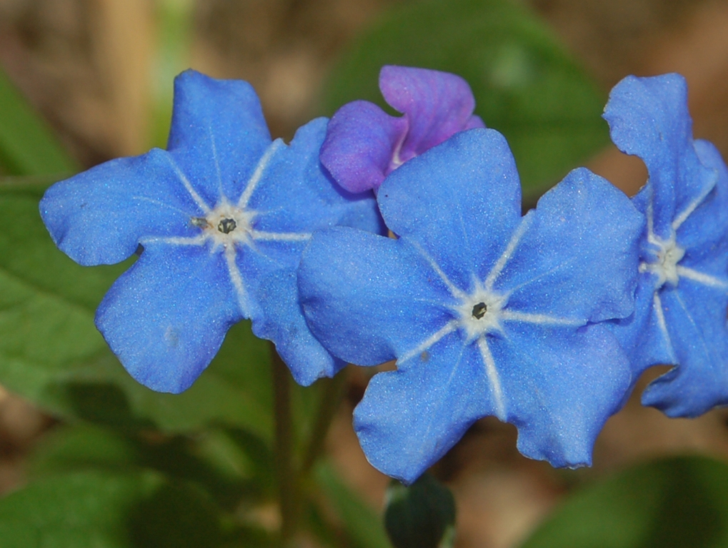 Omphalodes verna - Val noci, Genova, Italy